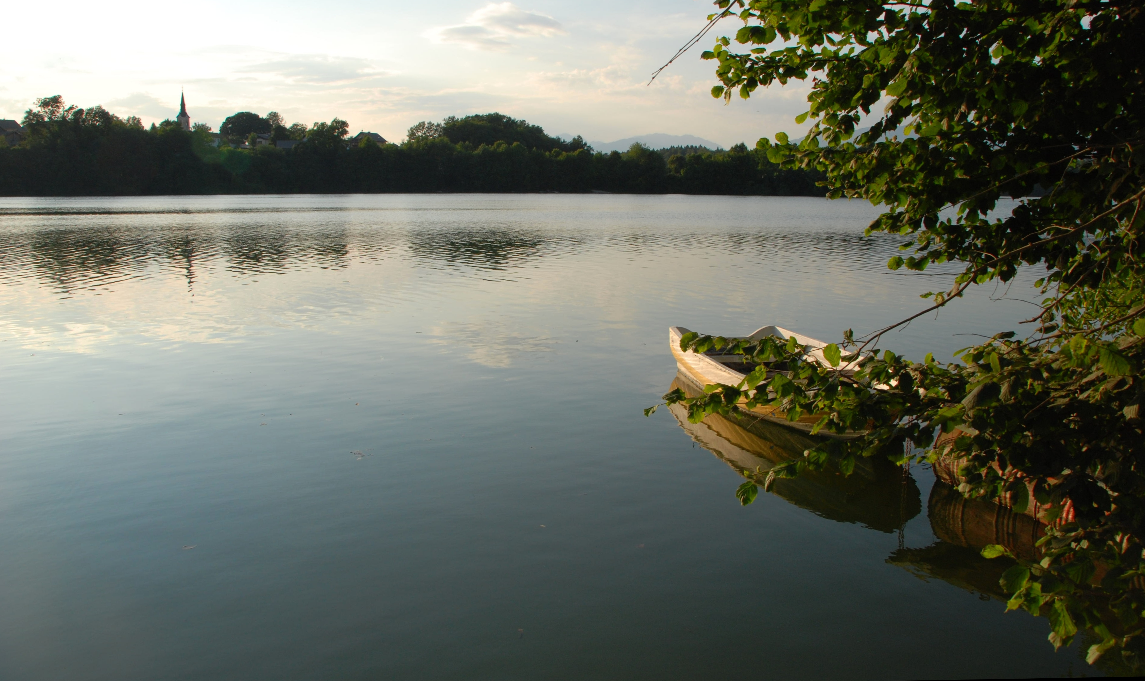 Trboje Lake next to the village of Trboje (Municipality of Šenčur).